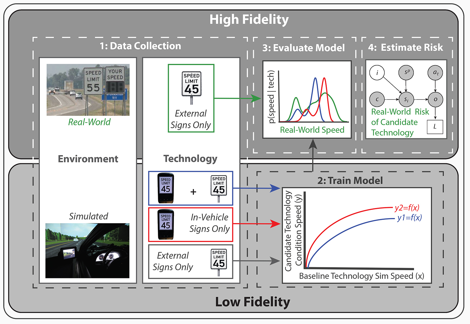 Diagram depicting multifidelity methods for evaluating risk associated with transportation technology